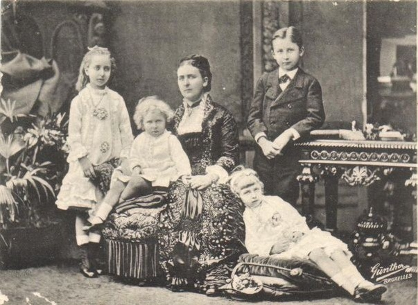 Marie, Countess of Flanders with her children: Baudouin, Henriette, Joséphine Caroline and Albert.